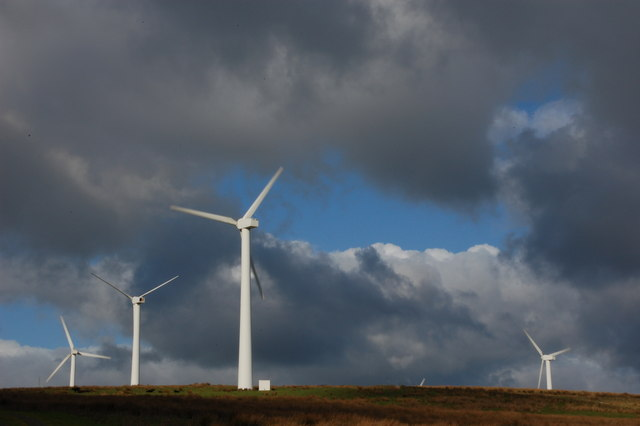 Elliott's Hill wind farm near Ballyclare Elliott's Hill wind farm began generating electricity in 1995. It is a prominent feature in the area but is particularly visible from the Larne-Ballymena road. The photo shows five of the ten turbines.